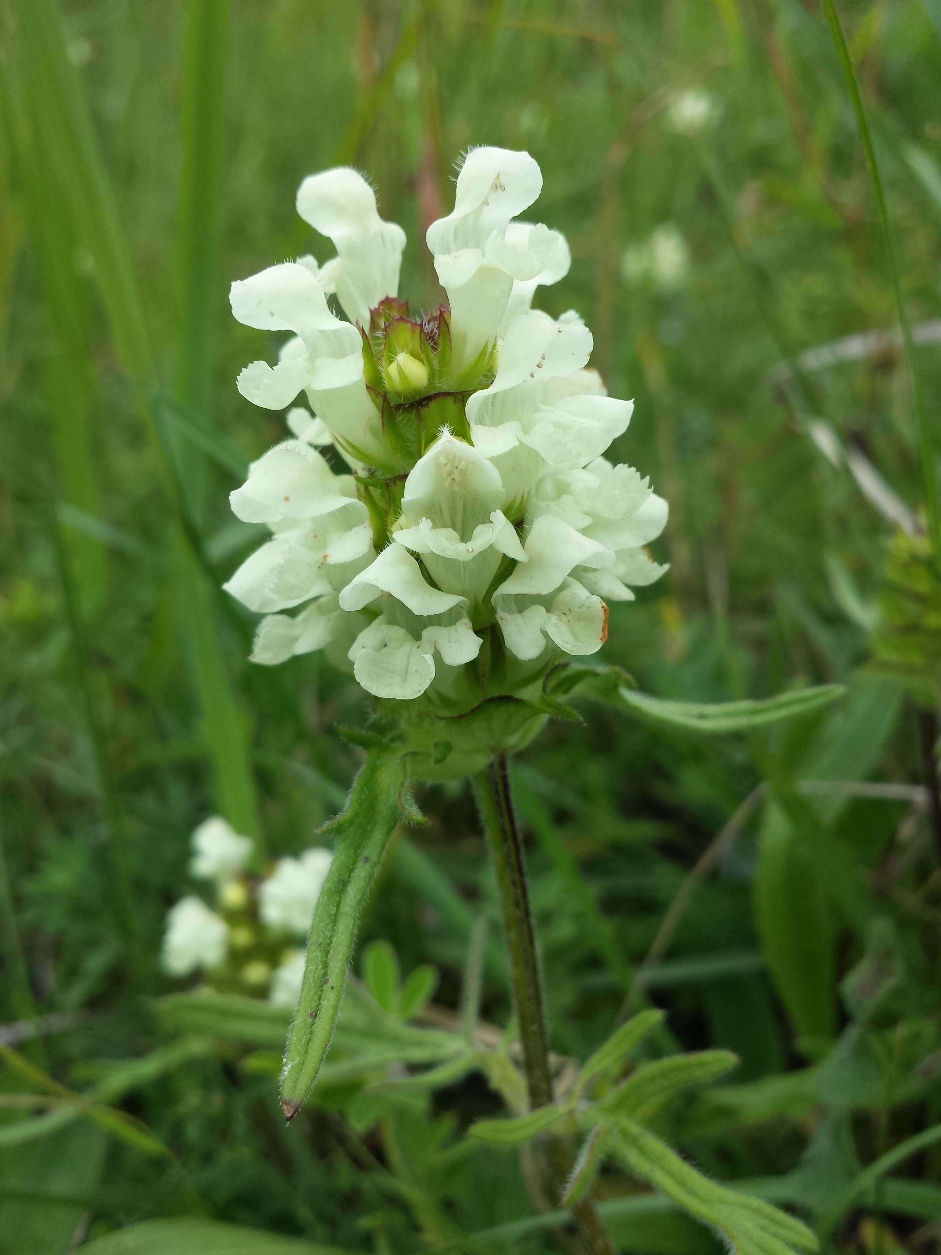 Inflorescence Taxonym: Prunella laciniata ss Fischer et al. EfÖLS 2008 ISBN 978-3-85474-187-9 Location: to the east of Neusiedl am See, district Neusiedl am See, Burgenland, Austria - ca. 160 m a.s.l. Habitat: semi-dry grassland